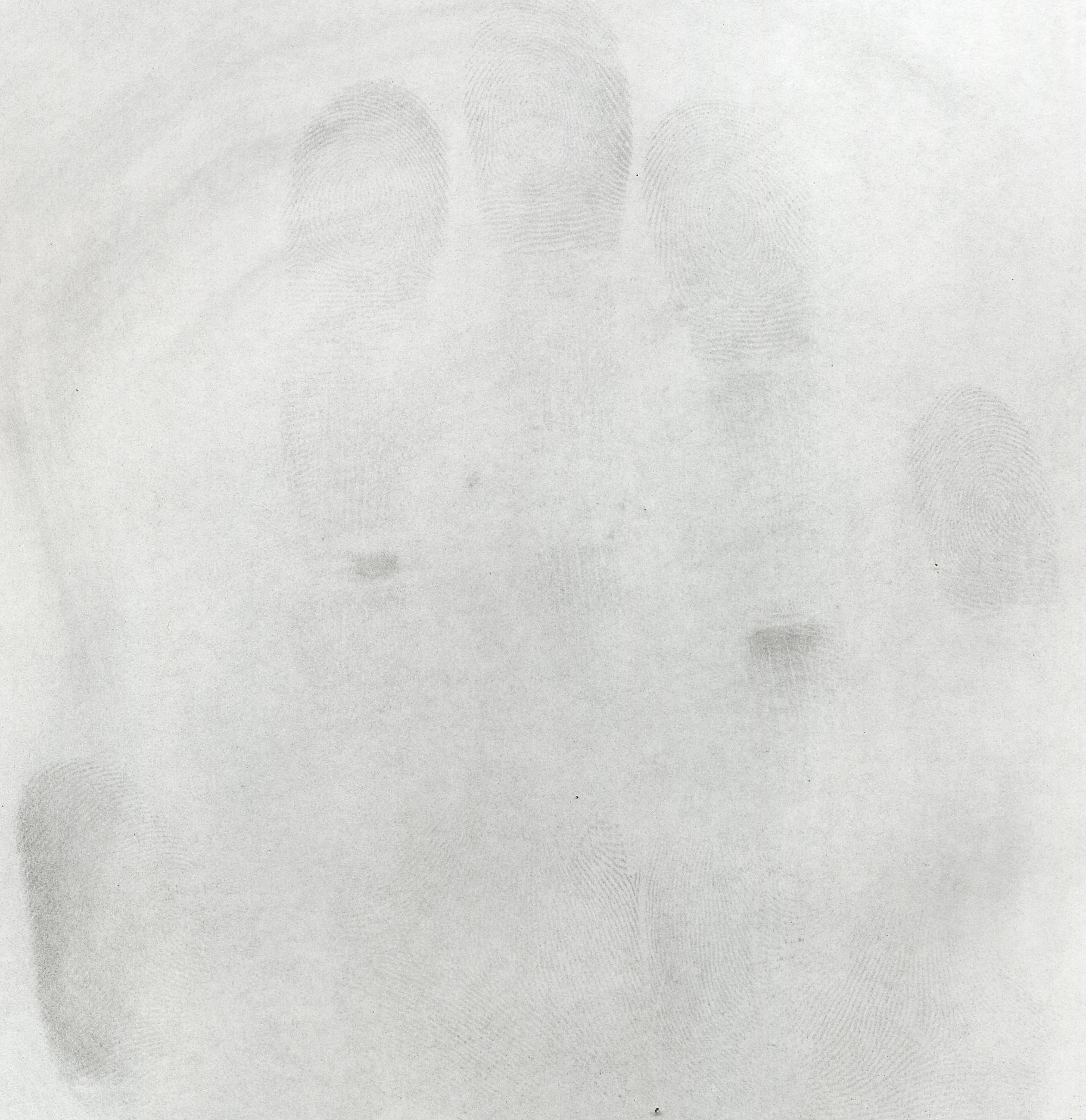 My own fingerprints revealed with some metal dust